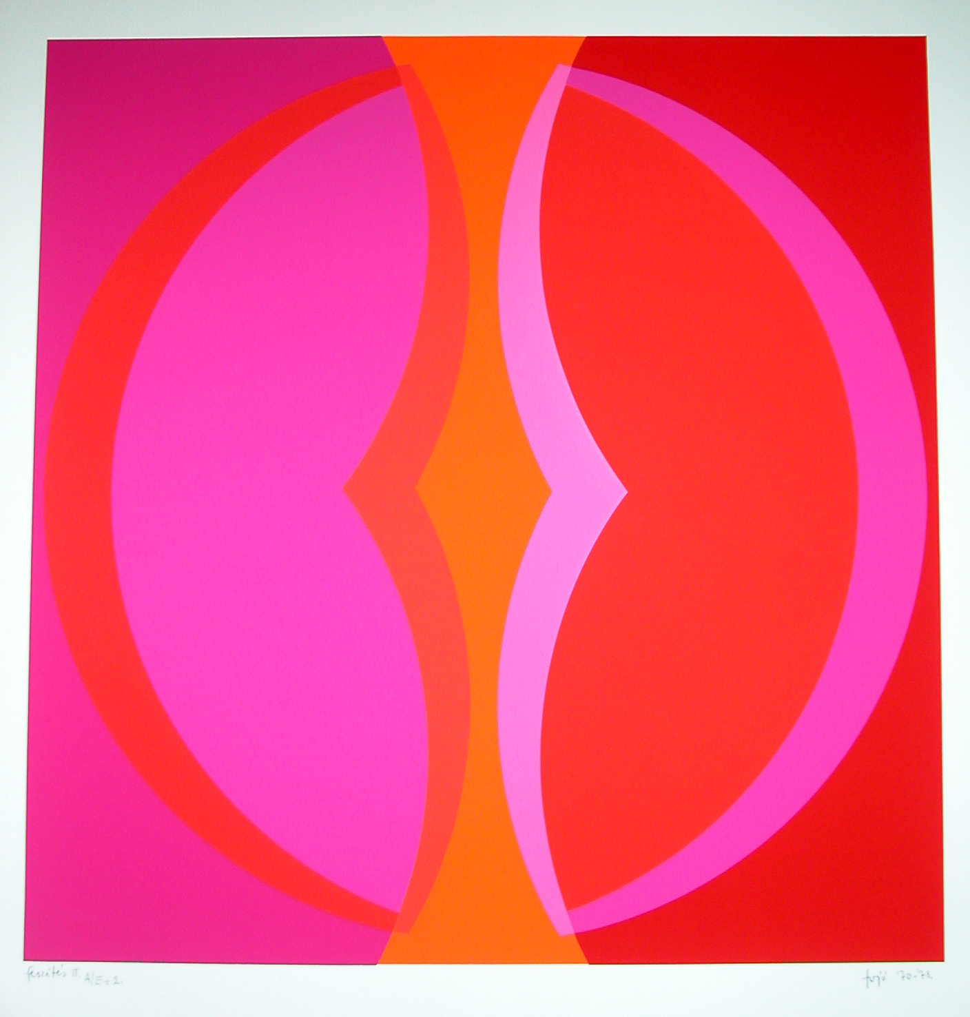 Happiness